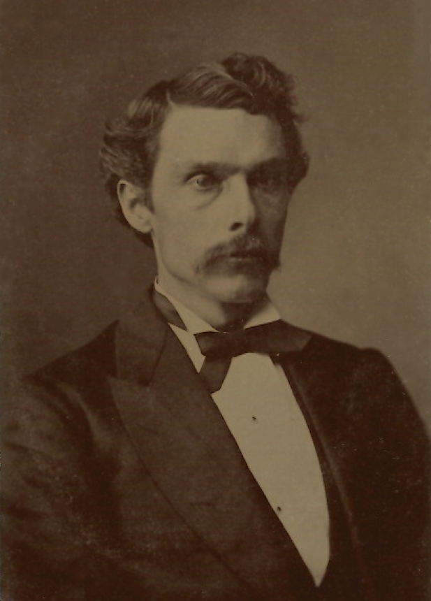 Stephen French, Esq. (Daguerreotype c. 1863)